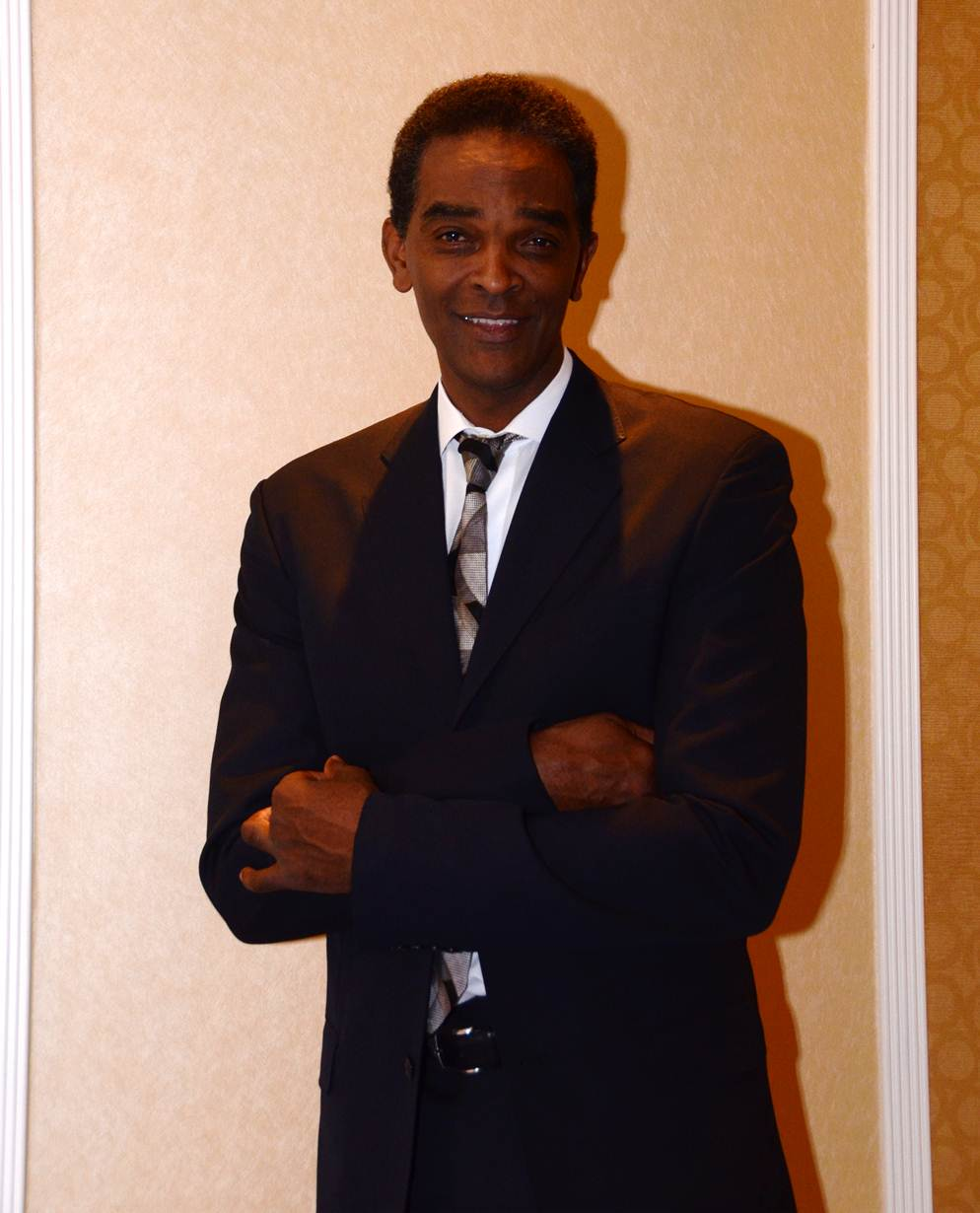 Ralph Sampson standing outside of dinner at VA Sports Hall of Fame Dinner 2012